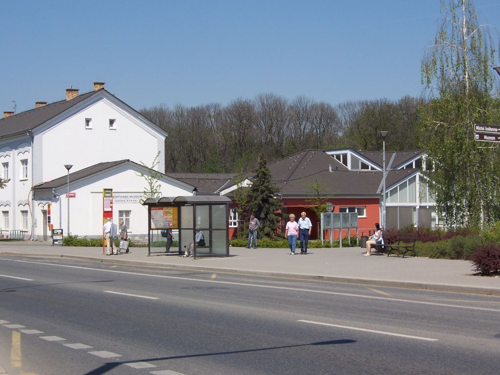 Prague-Uhříněves, Nové náměstí (New Square), museum and school dining-hall